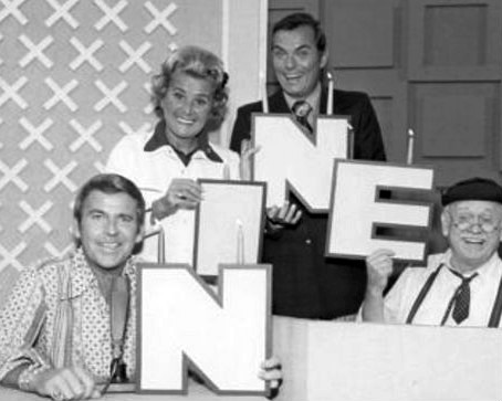 Publicity photo of Hollywood Squares celebrating its eighth year/ beginning its ninth year. Pictured are Paul Lynde, Rose Marie, host Peter Marshall and Cliff Arquette as Charlie Weaver.